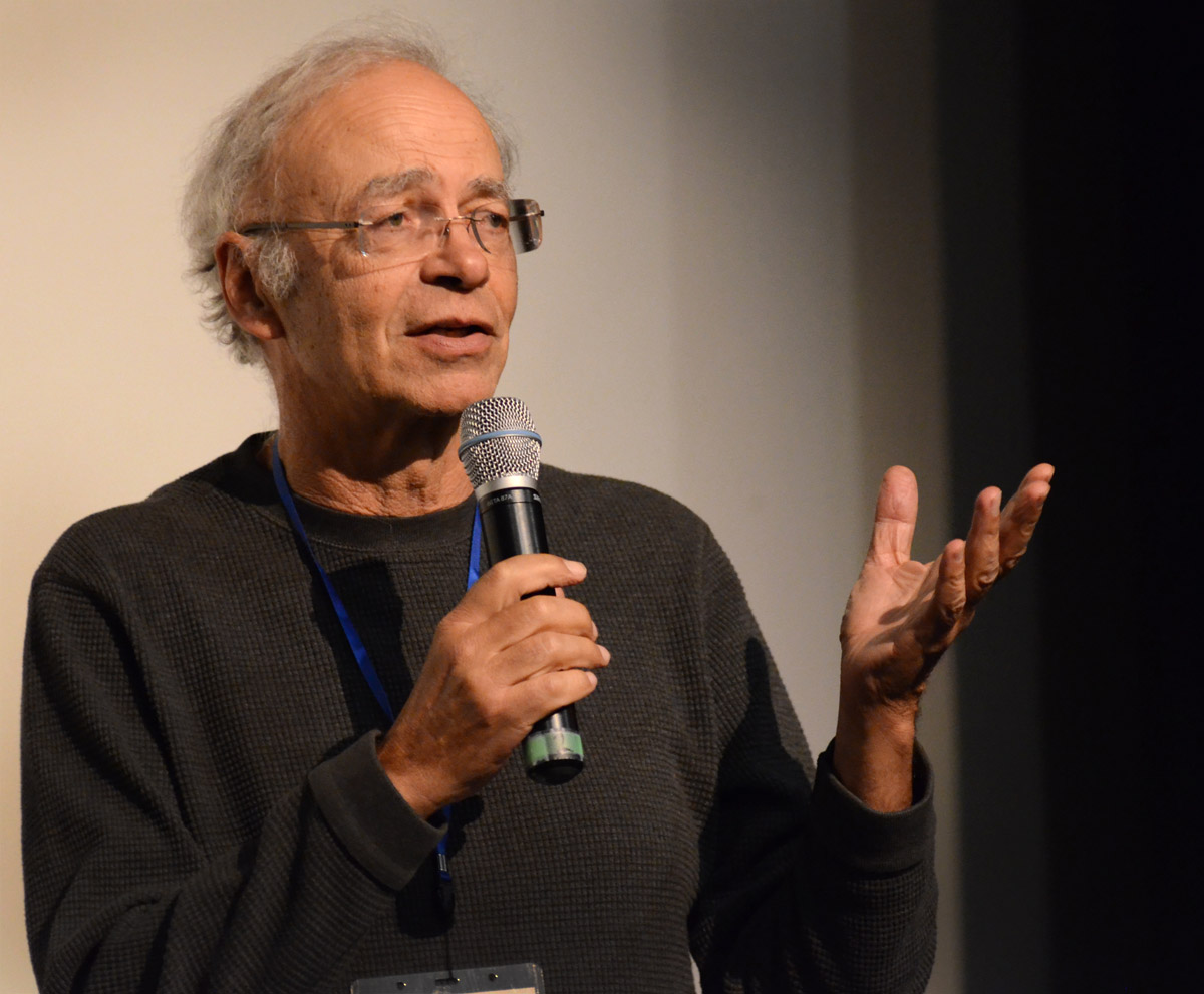 Peter Singer, speaking at an Effective Altruism conference, Melbourne 2015